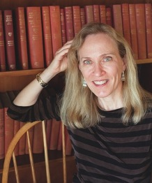 Prof. Claudia Dale Goldin